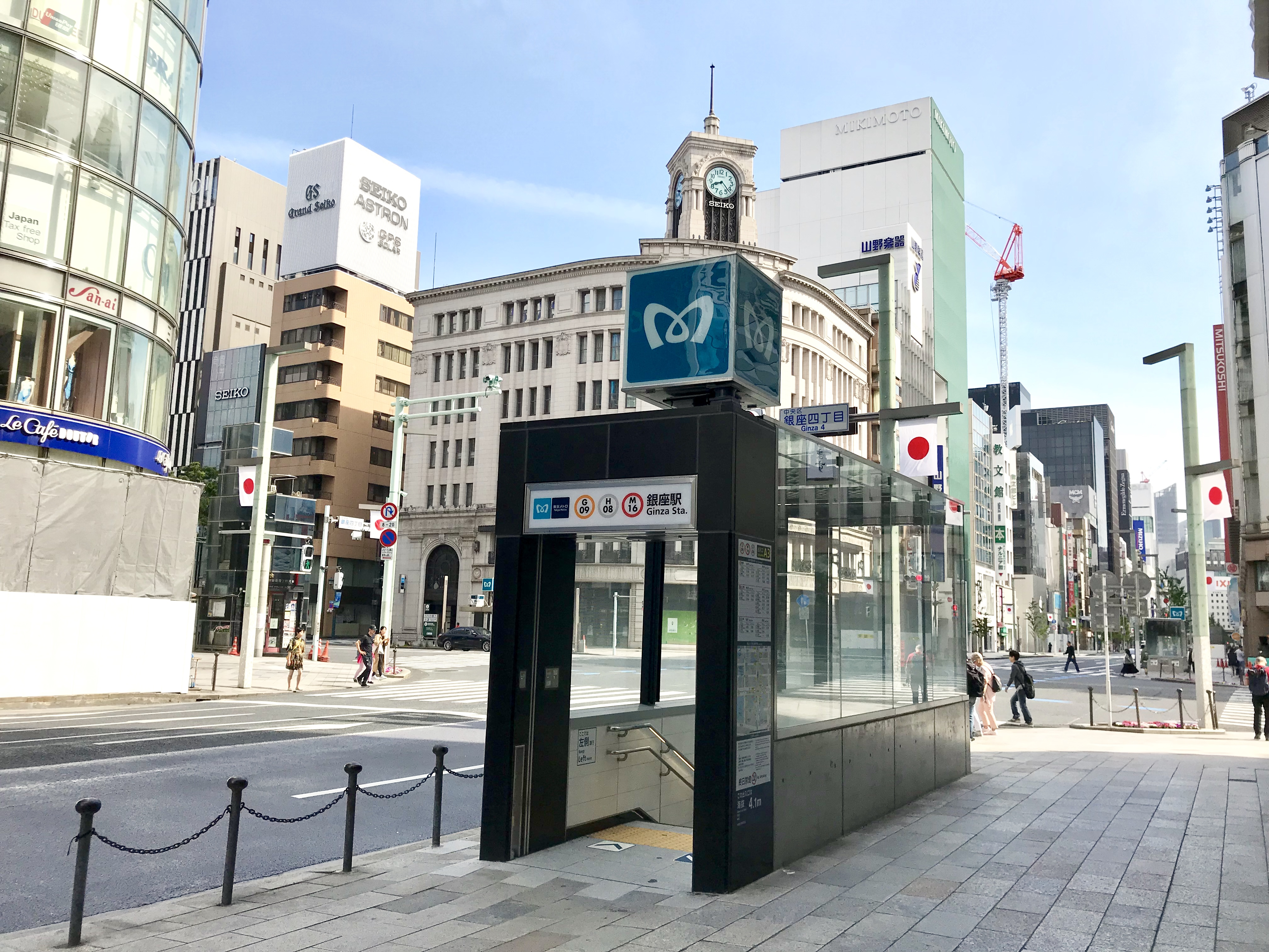 Exit A3 of Tokyo Metro Ginza station (on the Ginza, Hibiya, and Marunouchi Lines)